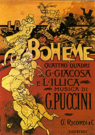 Poster for the 1896 production for Puccini's La bohème Artist: Adolf Hohenstein (1854-1928) Date of Publication: 1896 Publisher: G. Ricordi & Co.